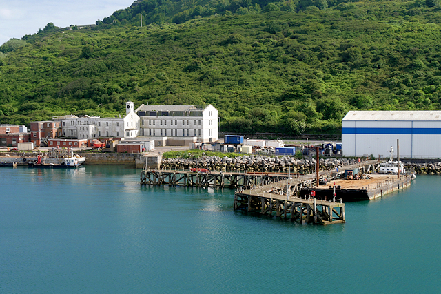 Former Navy Dockyard at Portland